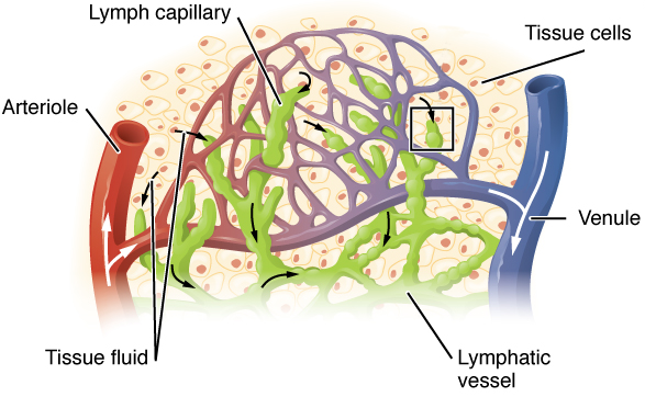 Based off: Other version